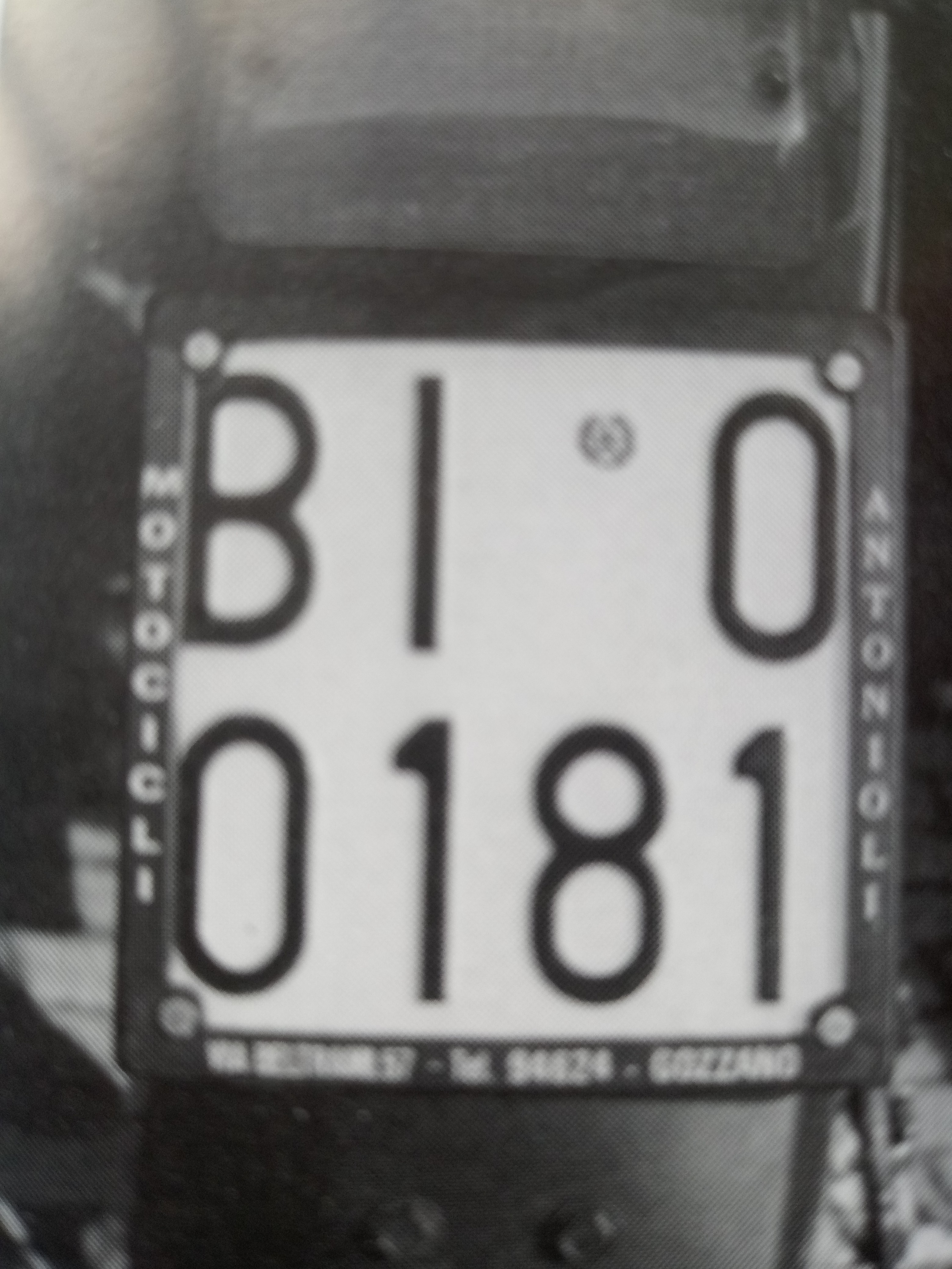 BI code (that stands for province of Biella, Piedmont) was issued only in the first months of 1994